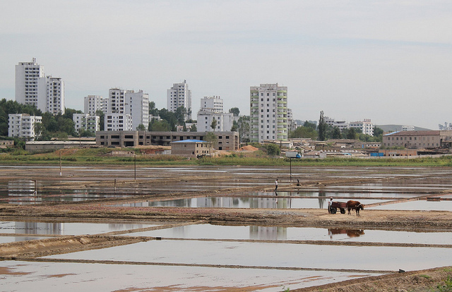 A view of Nampo North Korea with salt evaporation ponds.